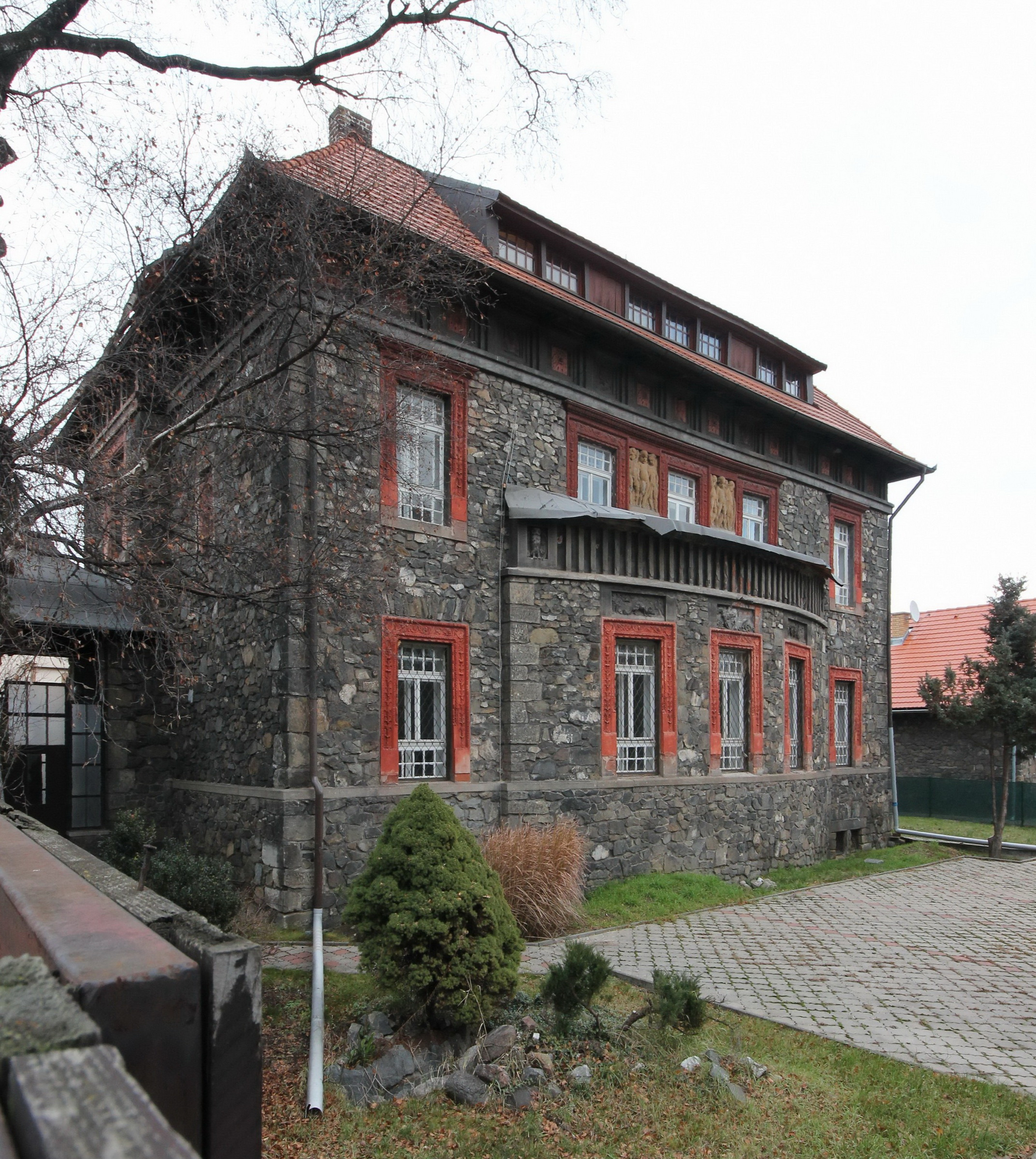 Stone Villa, Pardubice, Czech Republic, SW view.